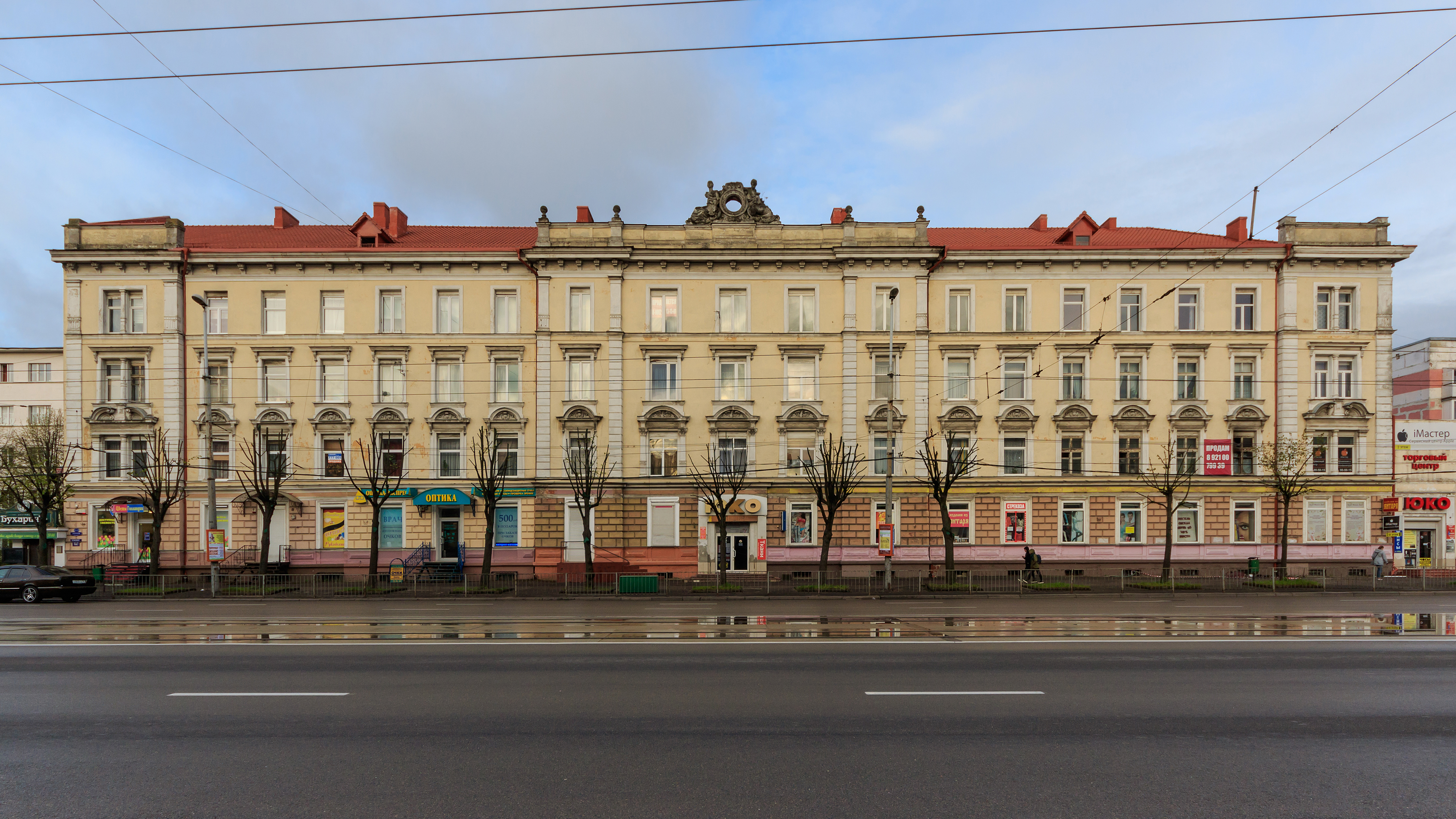 Former administration building of East Prussian railways in Kaliningrad formerly Königsberg, Kaliningrad Oblast (Russia).